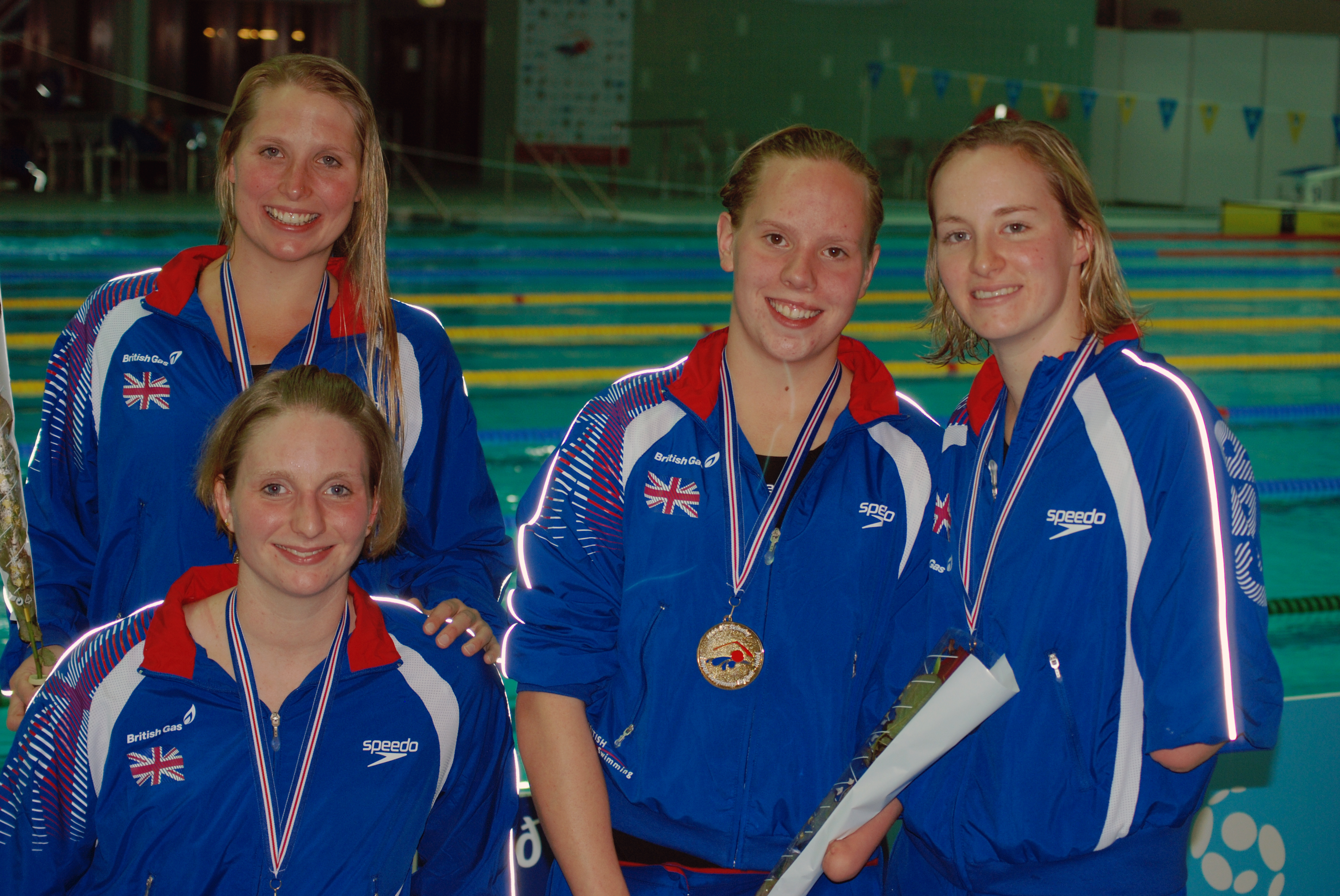 Great Britain's winning relay team for the 4x100m medley relay at the 2009 IPC Swimming European Championships at Reykjavik October 2009. From left to right Stephanie Millard, Heather Frideriksen, Lousie Watkin and Claire Cashmore